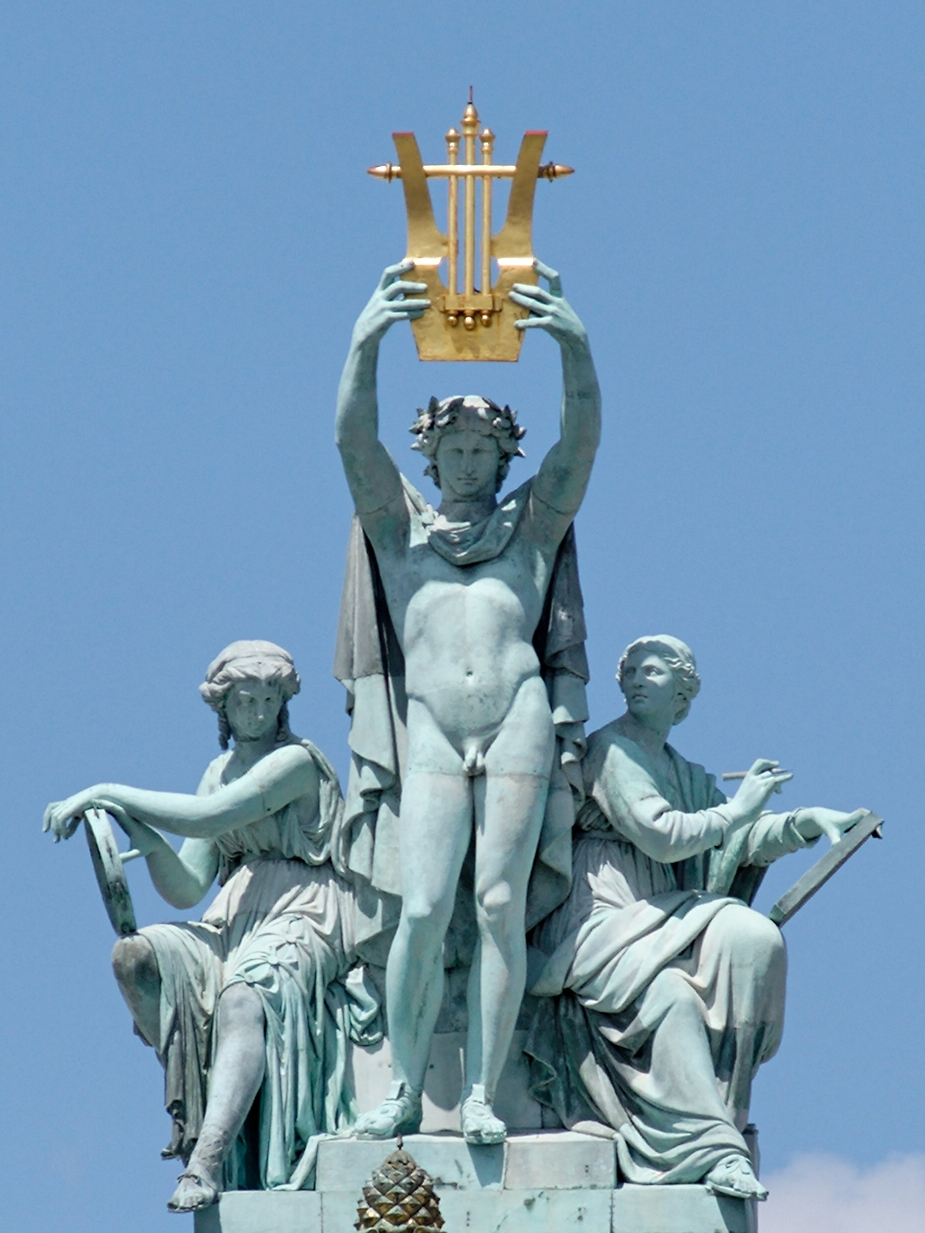 Apollo, Poetry and Music by Aimé Millet (ca. 1860–1869), viewed from the boulevard de l'Opéra. Roof of the Palais Garnier, Paris.